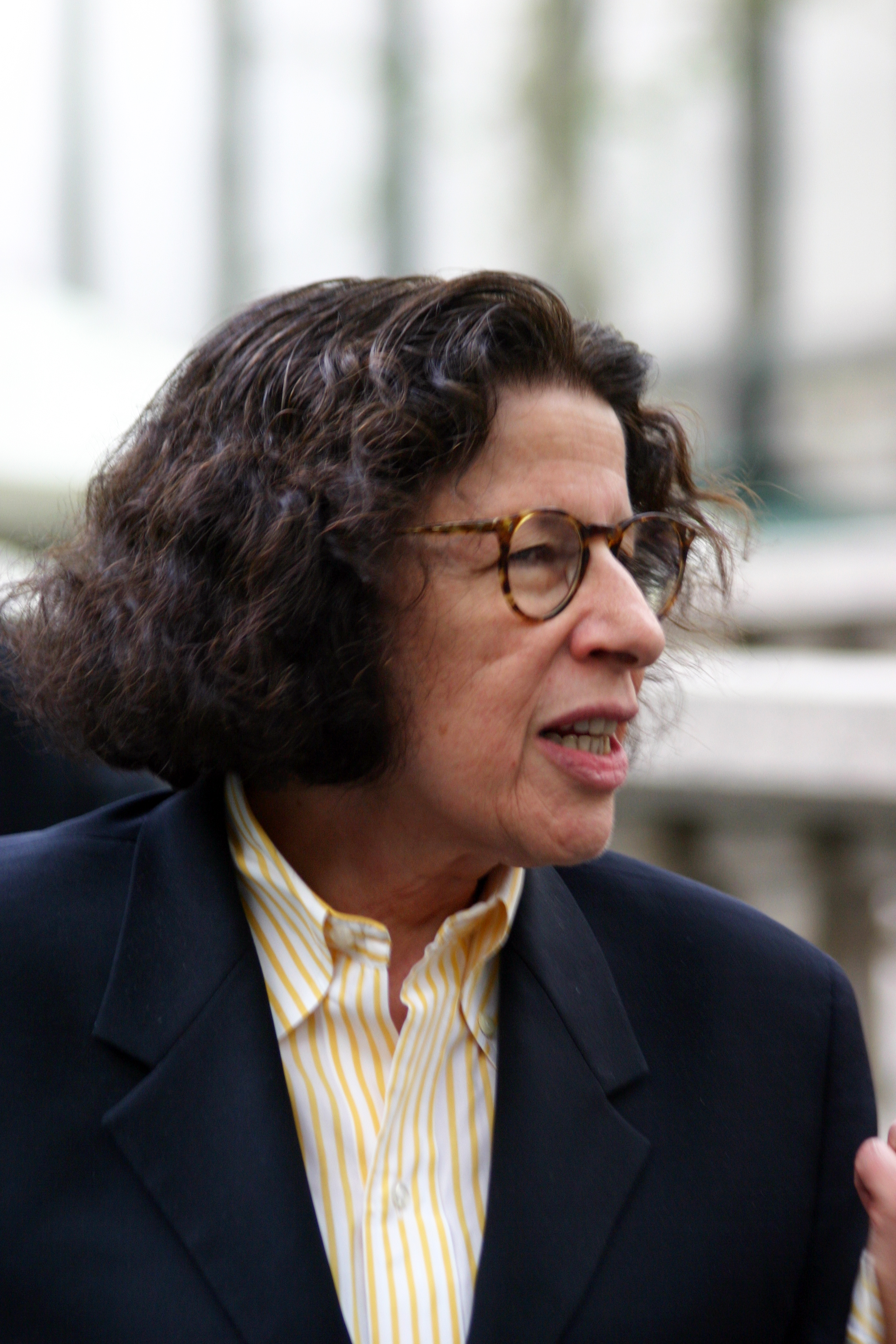 Writer Fran Lebowitz at Mercedes-Benz Fashion Week in Bryant Park, New York City